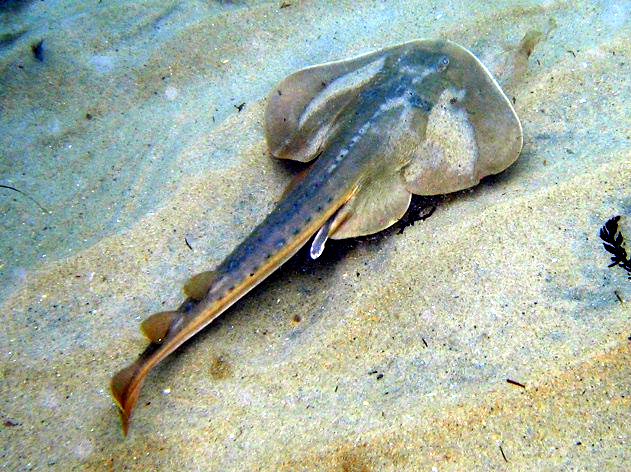 Thornback ray (Platyrhinoidis triseriata) off San Carlos Beach, California (cropped from original).